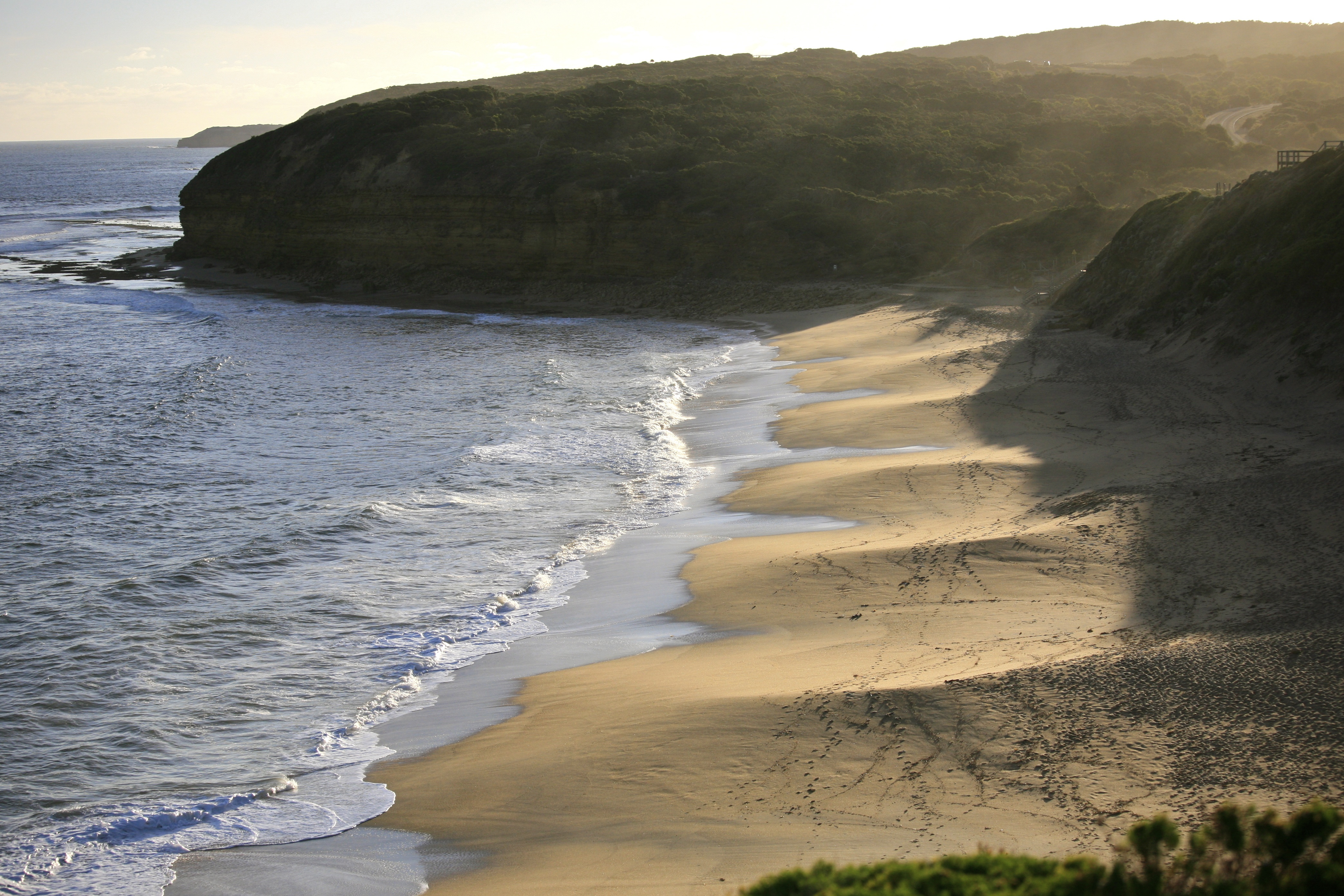 Bells Beach, Victoria Australia